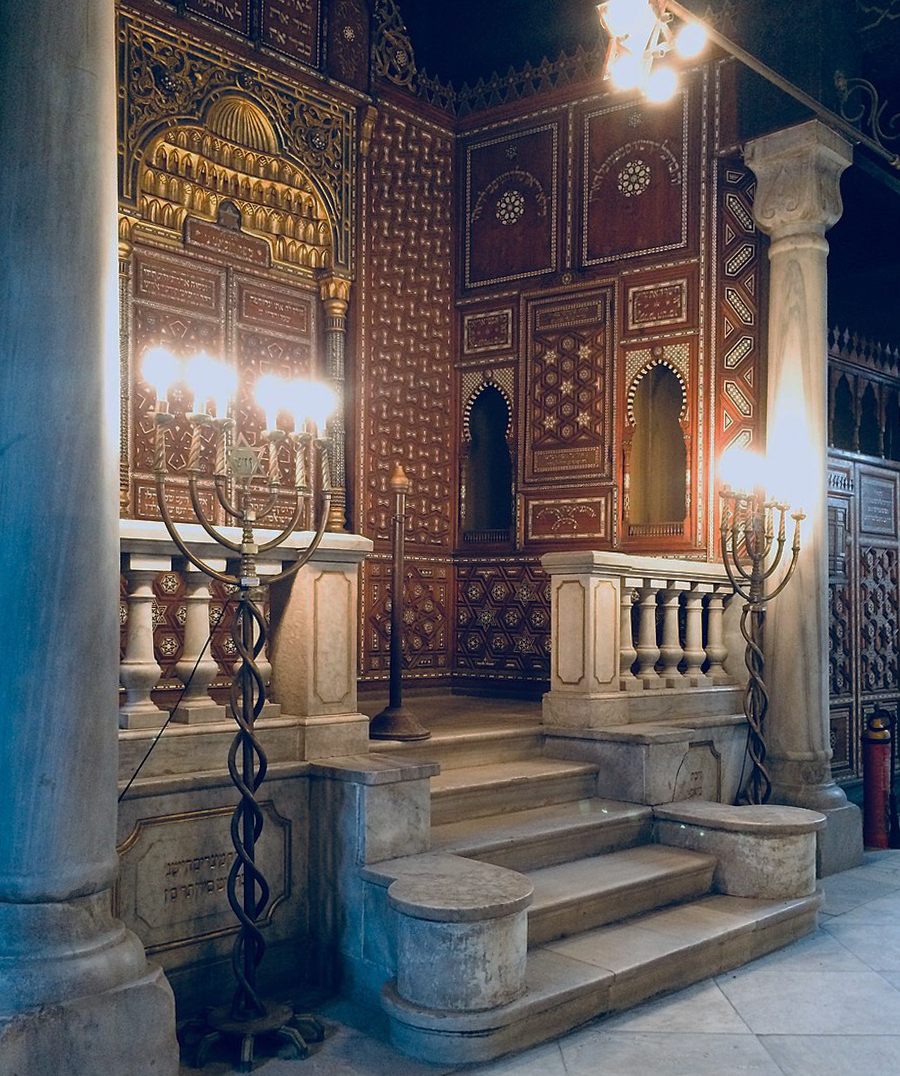 Cropped version of file with slight light correction